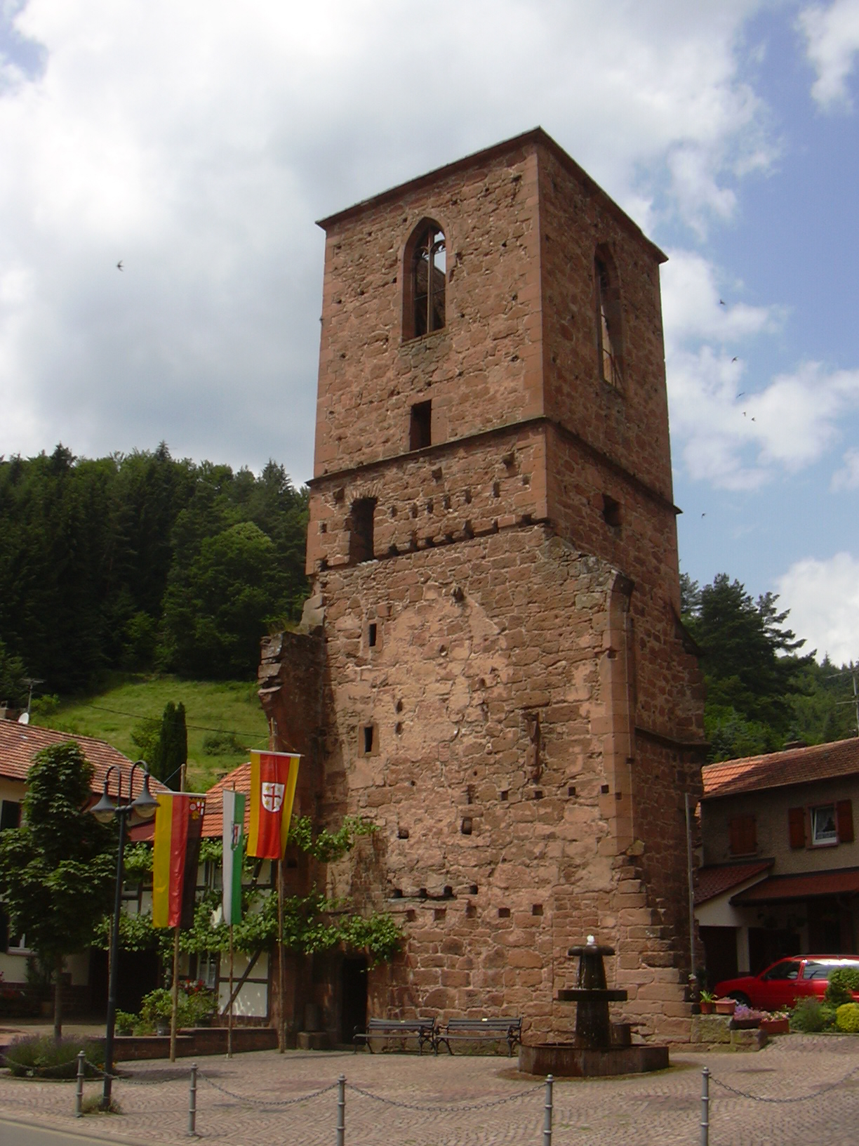 Appenthal (former church), Palatinate/Germany